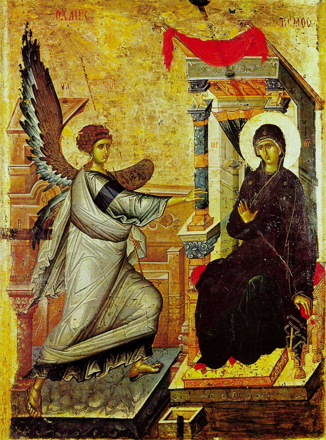 The icon of Annunciation from the Church of St Climent in Ohrid, R. o. Macedonia (first quarter of the 14th century).